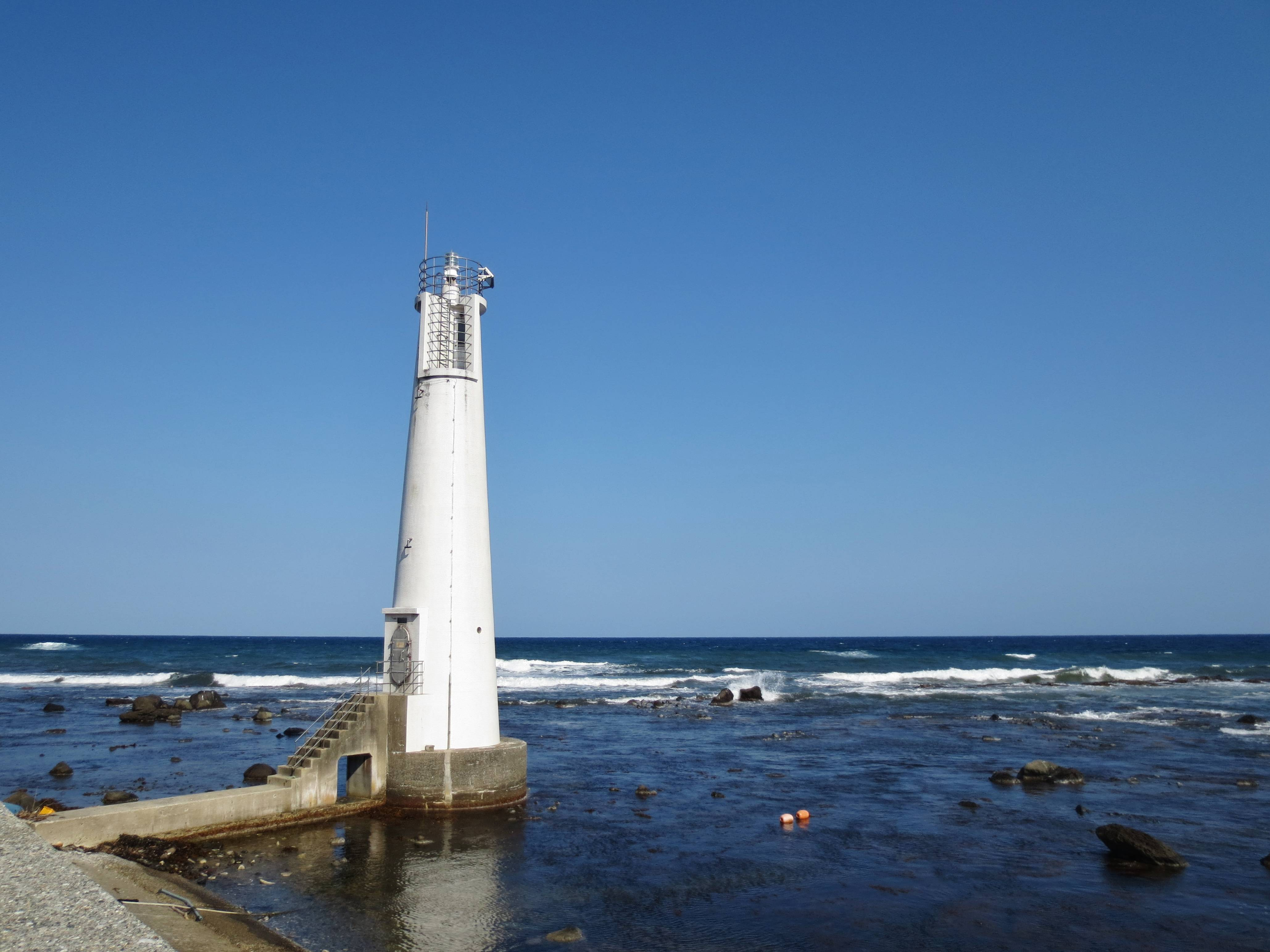 Nagatesaki Lighthouse.